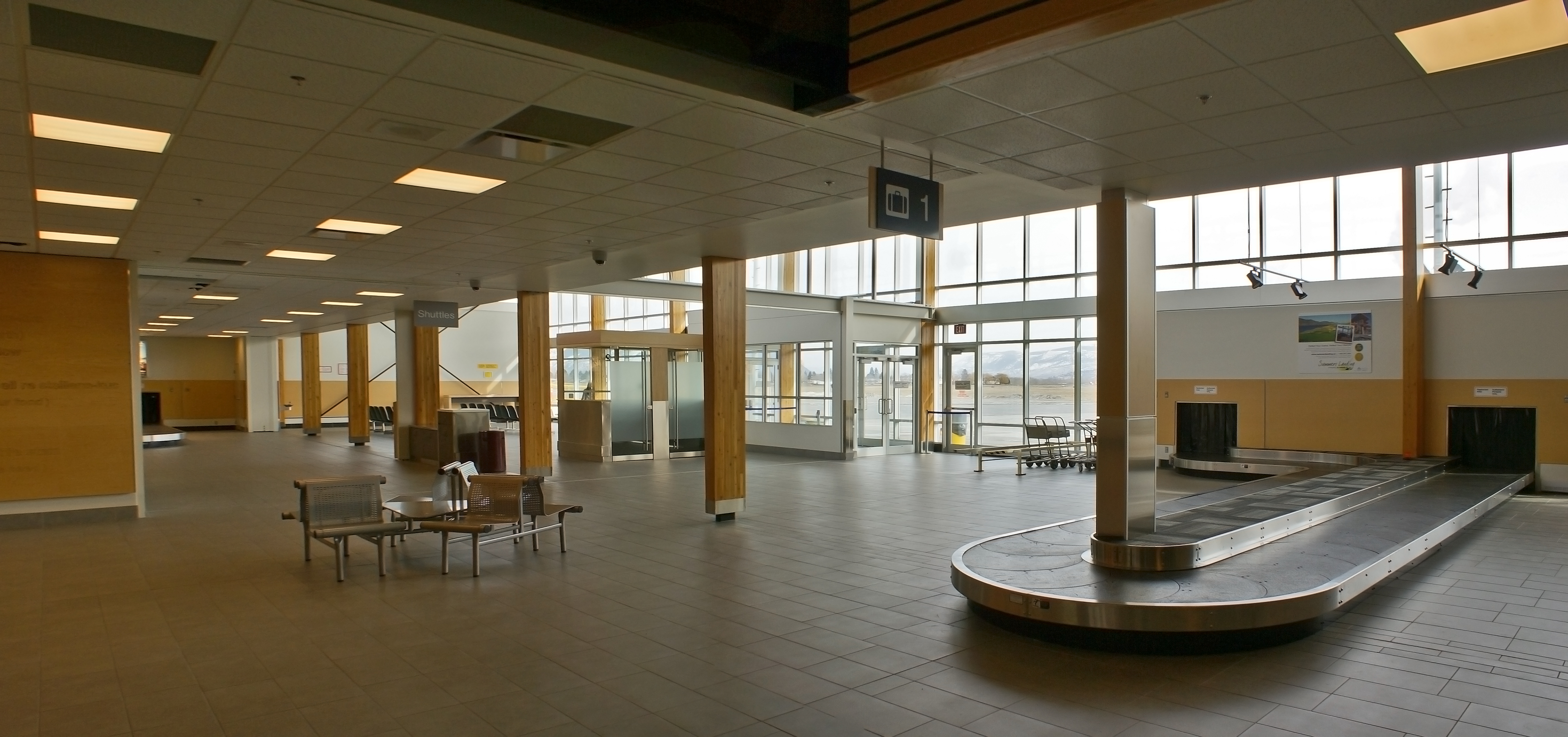 Shot taken of Kamloops Airport arrival area and baggage claim.